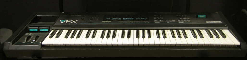 Ensoniq VFX Wavetable Synthesizer